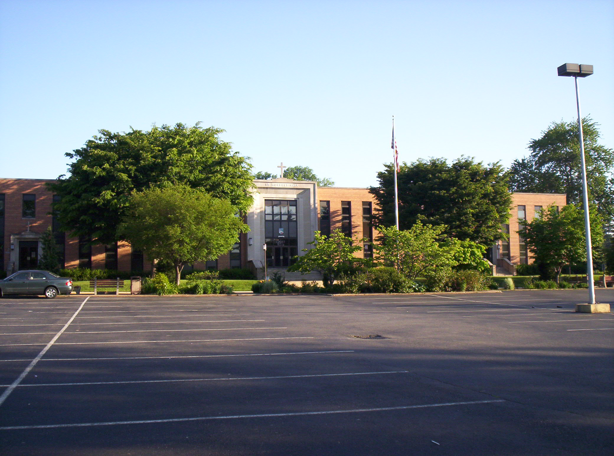 St. Norbert's Hall at Archmere Academy